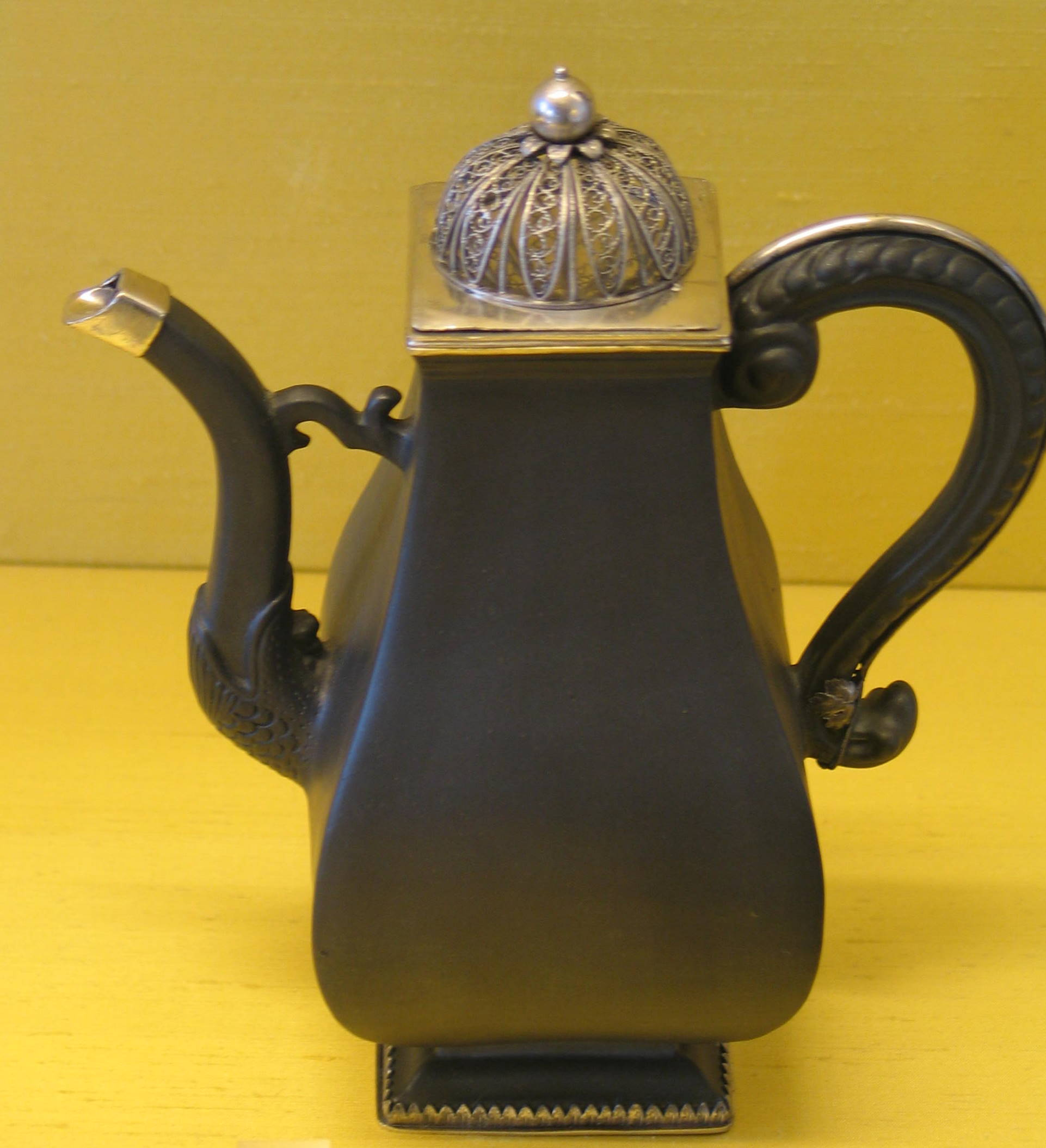 Coffeepot from Meissen, designed by J.F. Böttger, in Schloss Lustheim, Munich.